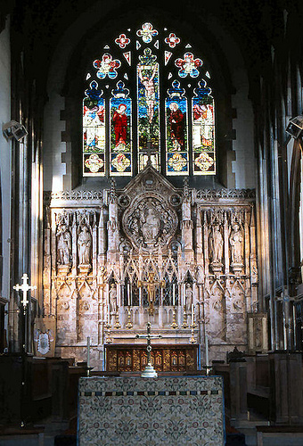 Church of England parish church of St Mary the Virgin, Acocks Green, Birmingham: east end of chancel. The reredos is alabaster and the east window was designed by Edward Burne Jones.